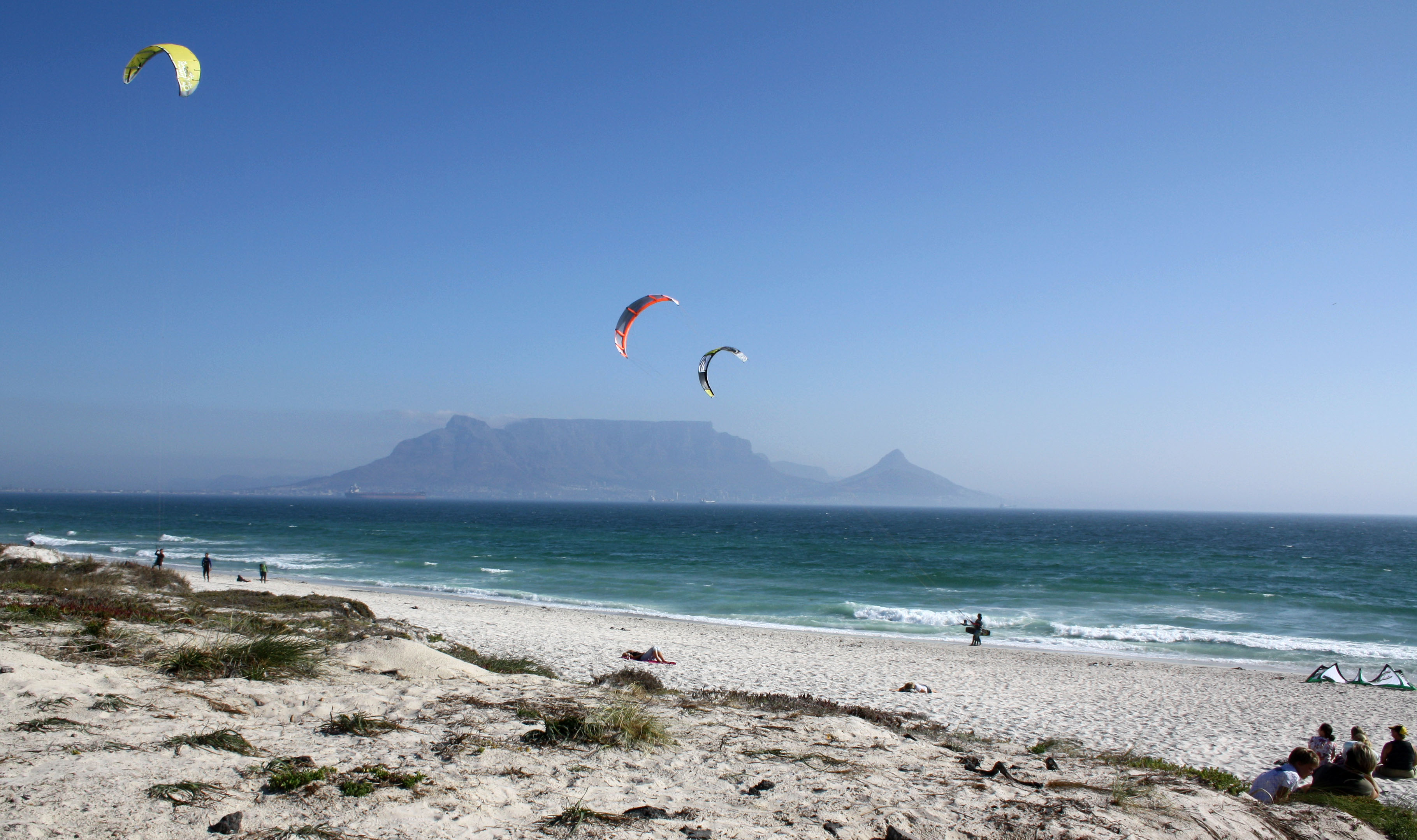 Bloubergstrand, South Africa, with Table Mountain in the background. March 2011. Photo by Winstonza talk